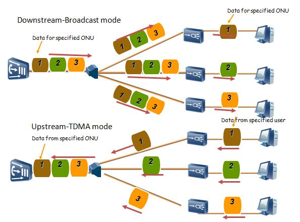 PON Upstream and Down Stream Comparison